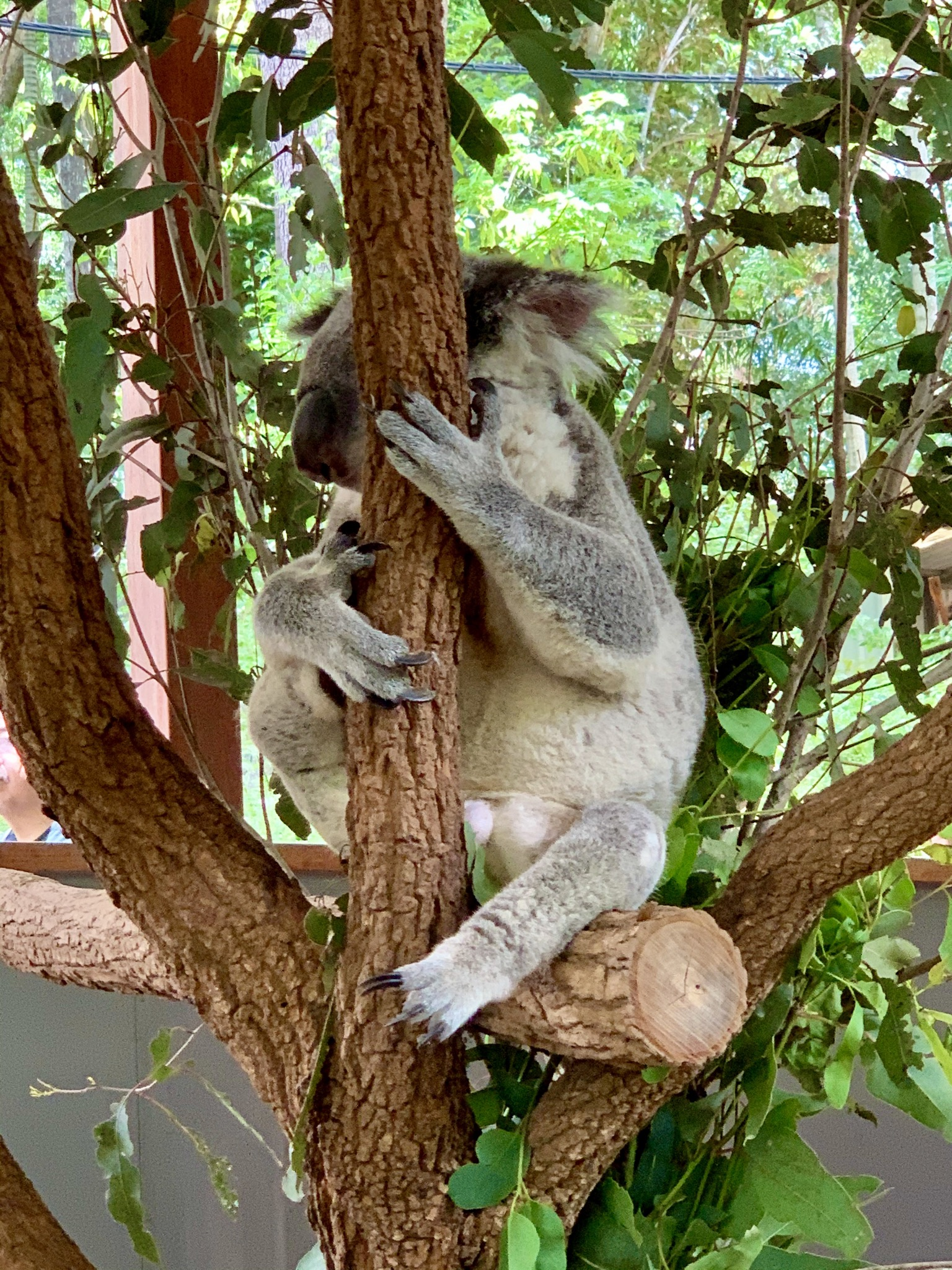 Koalas at Lone Pine Koala Sanctuary, January 2020